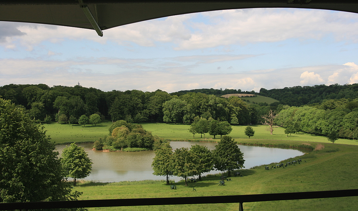 The Wormsley Estate